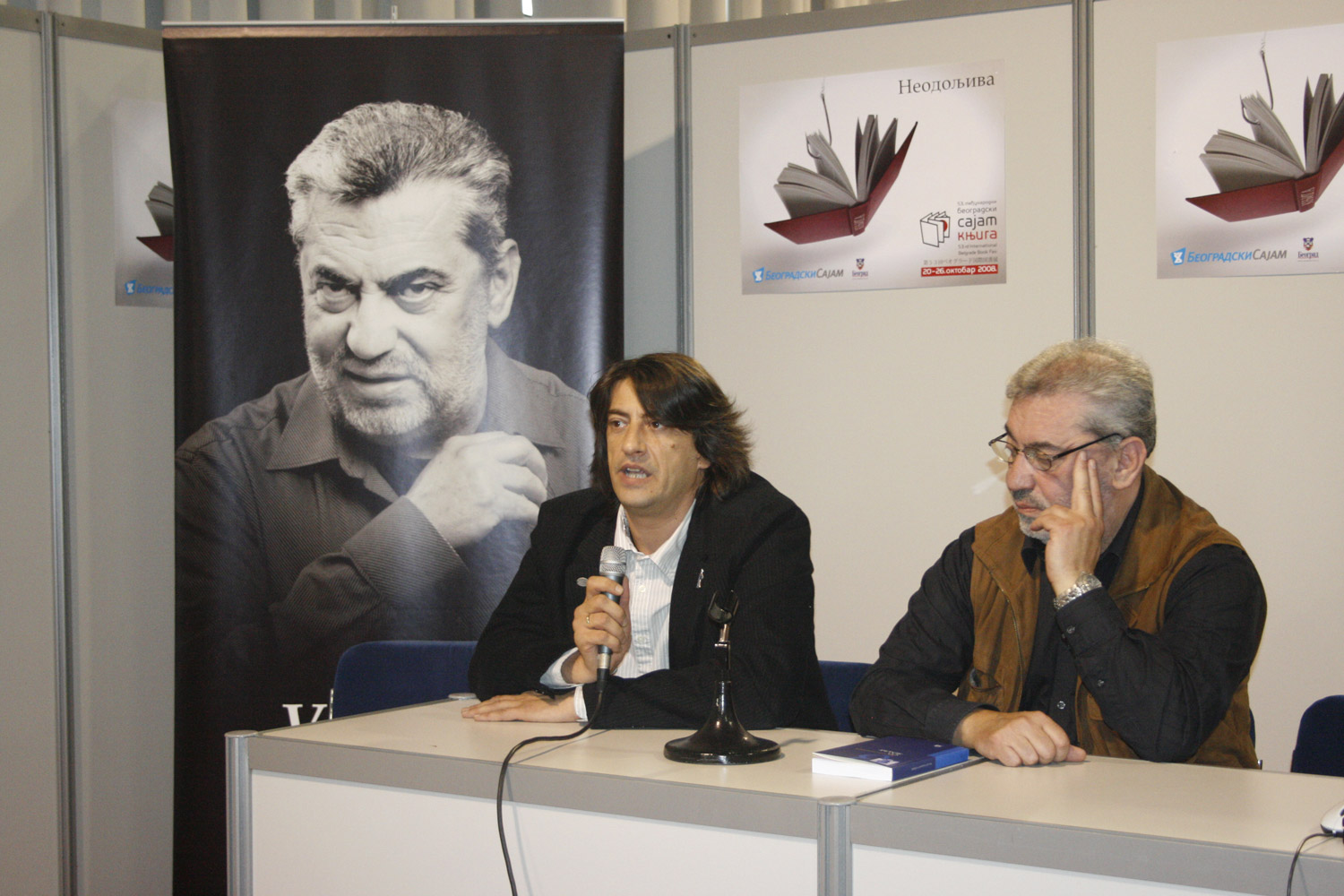 Photo of Vidosav Stevanović and Saša Milenić, october 2008.